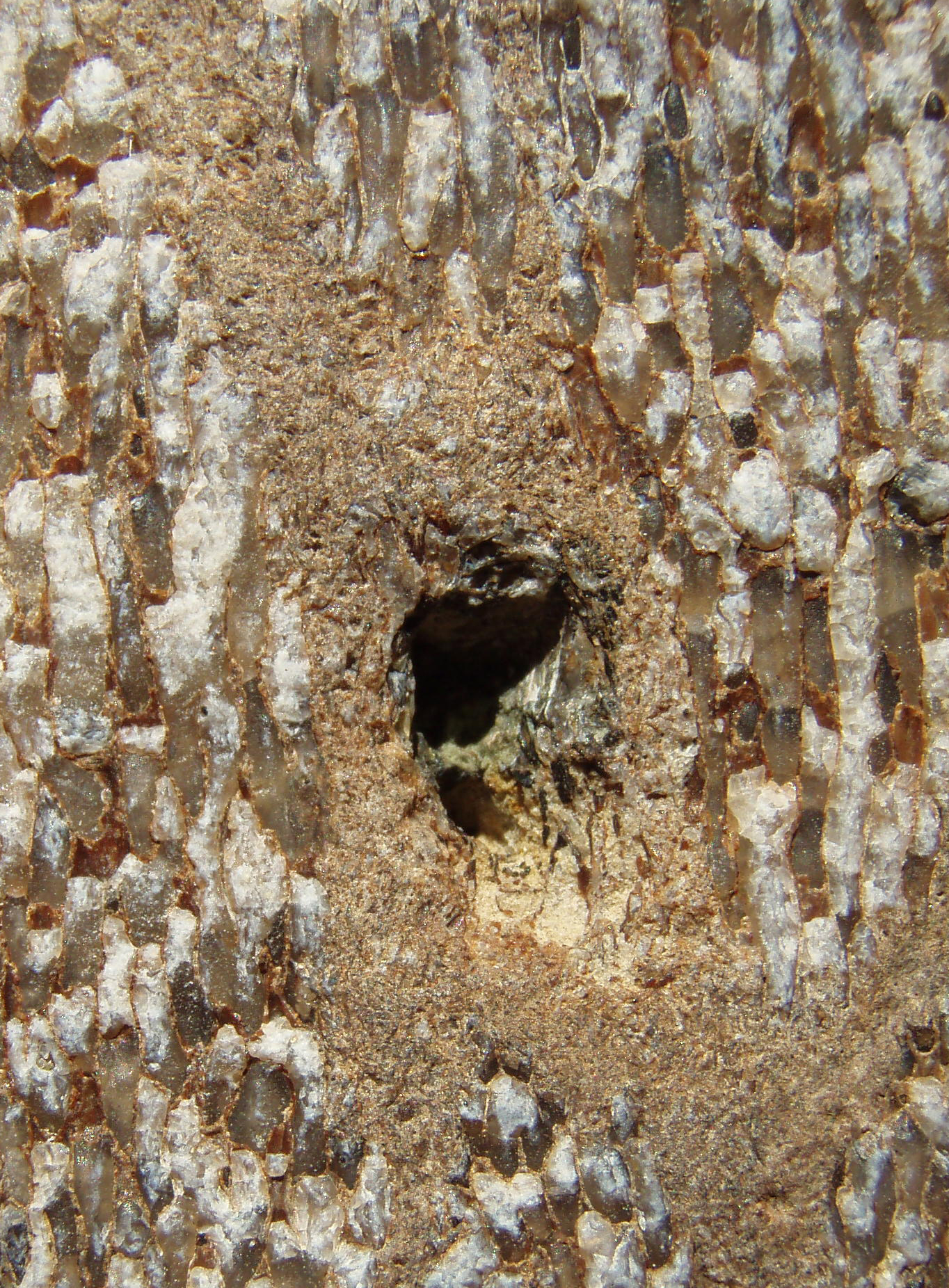 A close-up of Fossil whale bone found at California beach